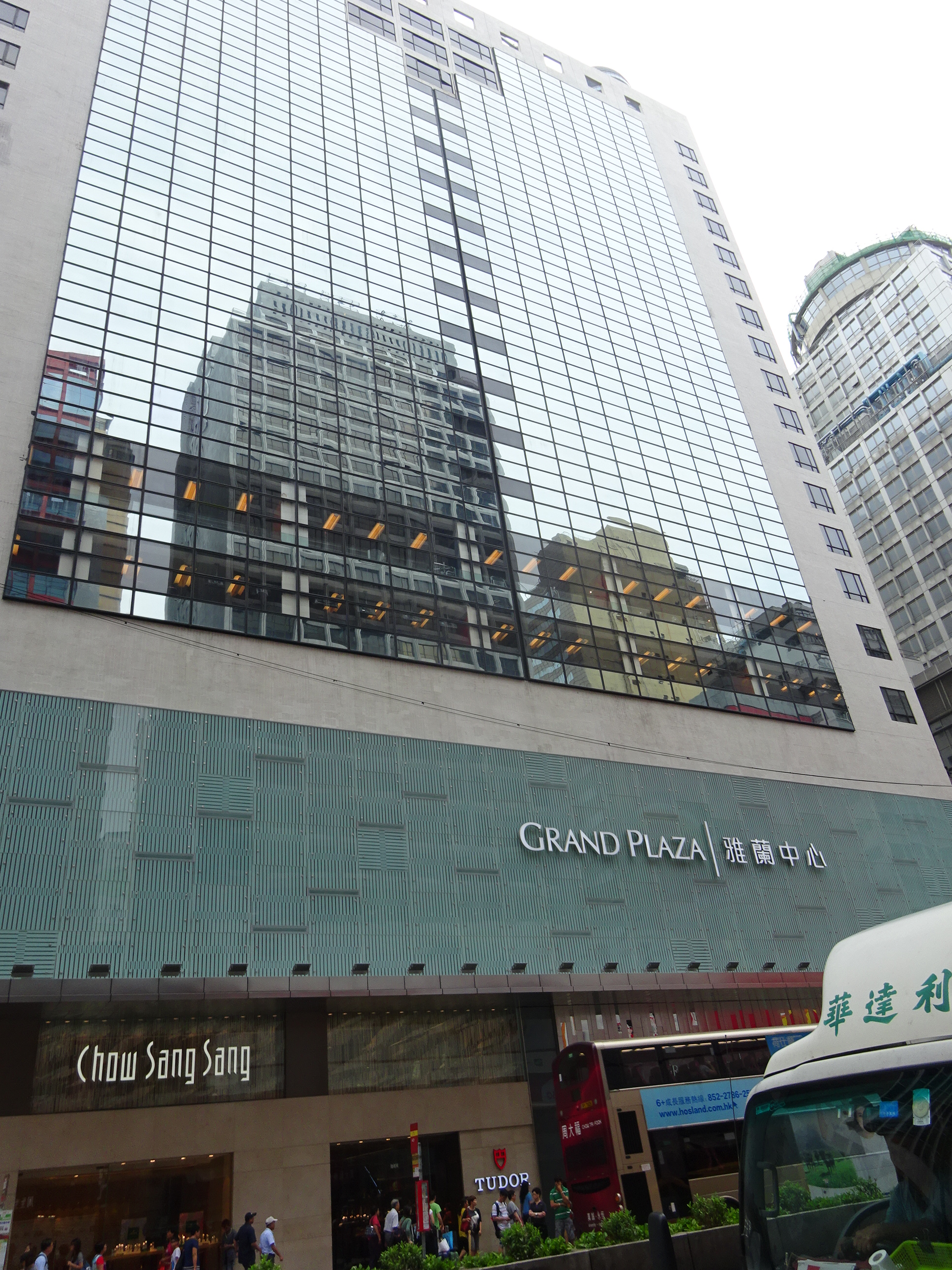 Bus 102 stop view Nathan Road, Hong Kong